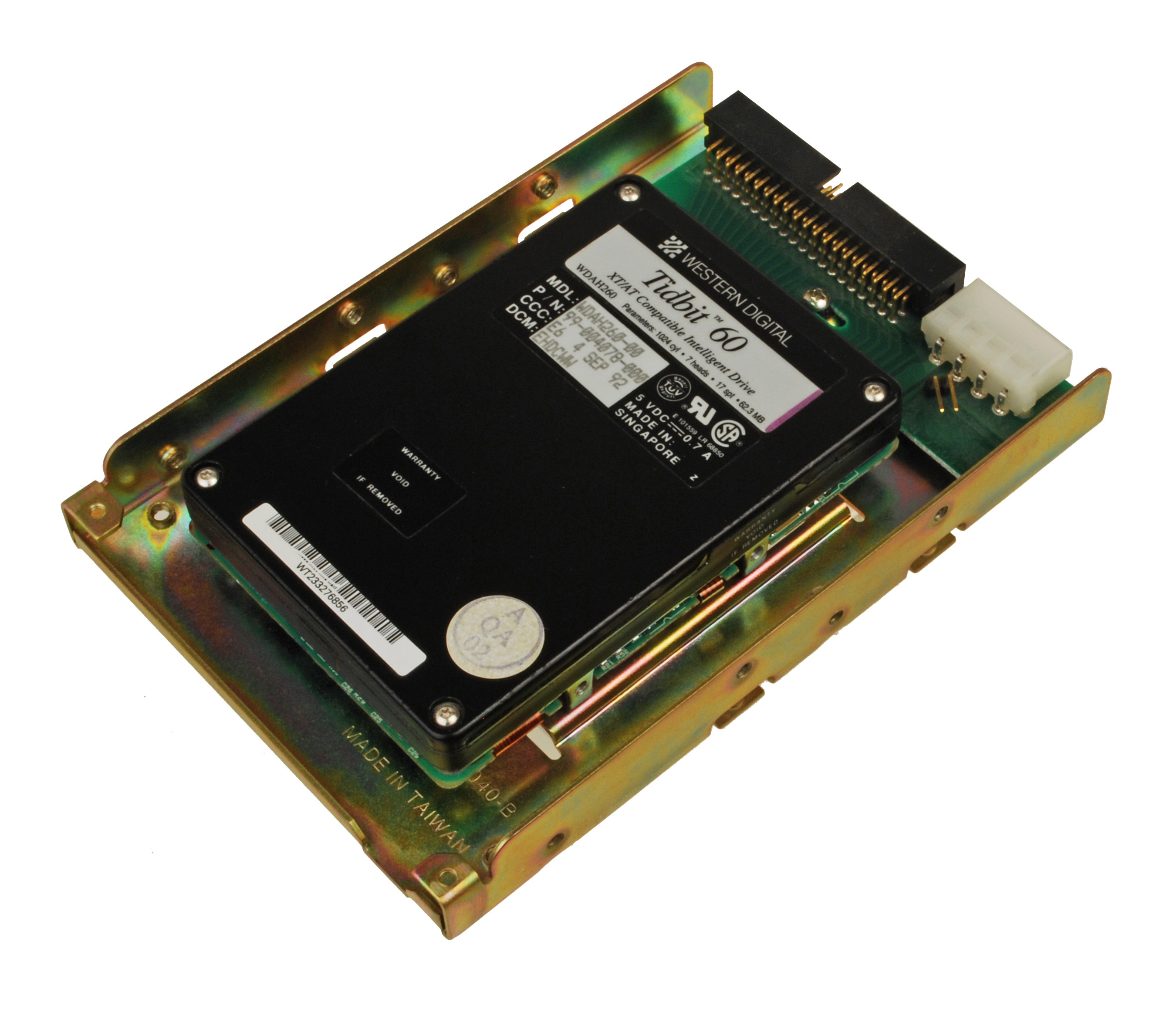 Western Digital 2.5 inch 60 MB disk drive in a 3.5 inch carrier. From a September 19, 1990 press release Western Digital announced late last week that its WDAB130 and WDAH260, a pair of AT compatible, 2.5-inch, intelligent disk drives. The WDAB130 and WDAH260 are the industry's first 30 and 60 megabyte 2.5-inch disk drives. The WDAB130 features a formatted capacity of 31.5 megabytes with a 19ms average seek time. The WDAH260 features a formatted capacity of 62.9 megabytes with a 19ms average seek time. Evaluation units of both drives will be available in the fourth quarter, 1990, with volume production slated in the first quarter, 1991. Prices for evaluation units are $325 for the WDAB130 and $495 for the WDAH260.